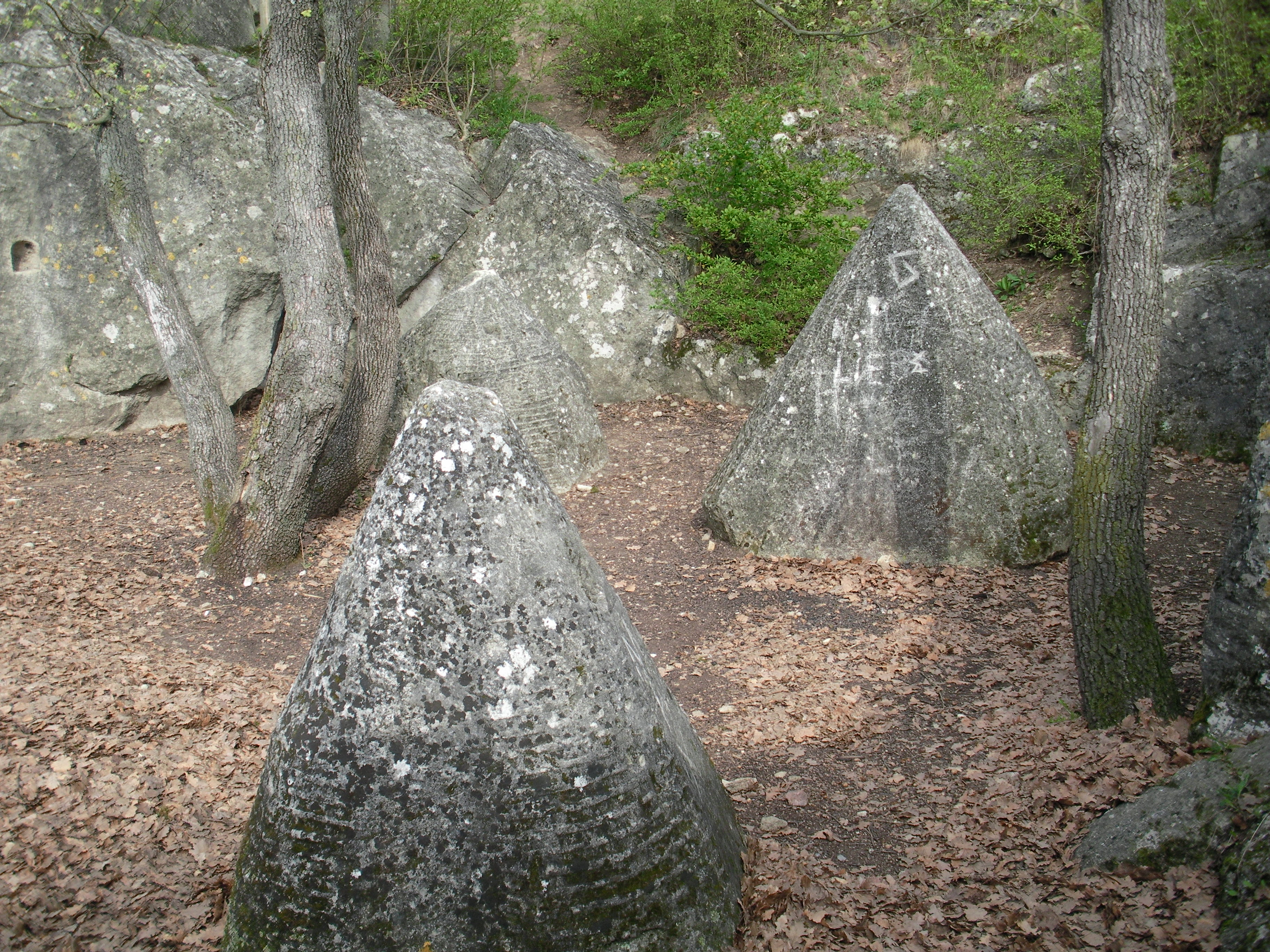 Roman quarry of Sankt Margarethen Sculpture